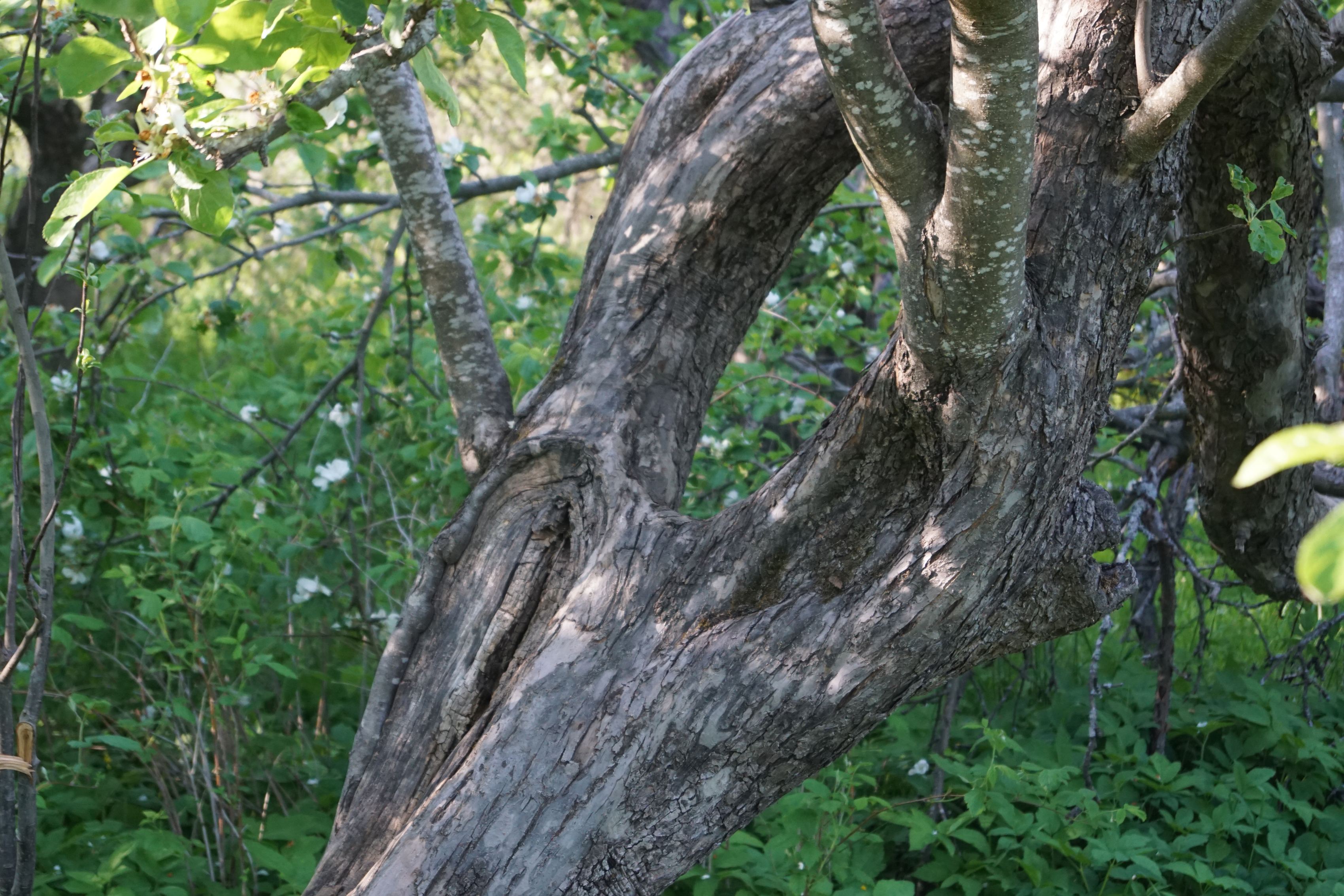 Trunk of an old apple tree in the nature reserve Årstaskogen in Stockholm, Sweden.